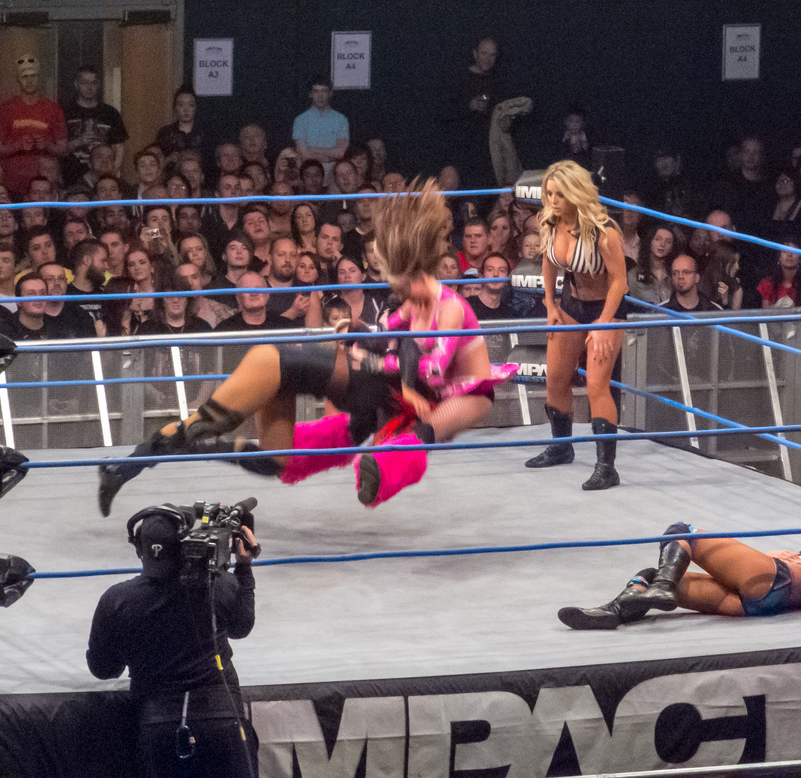 Velvet Sky FInisher.